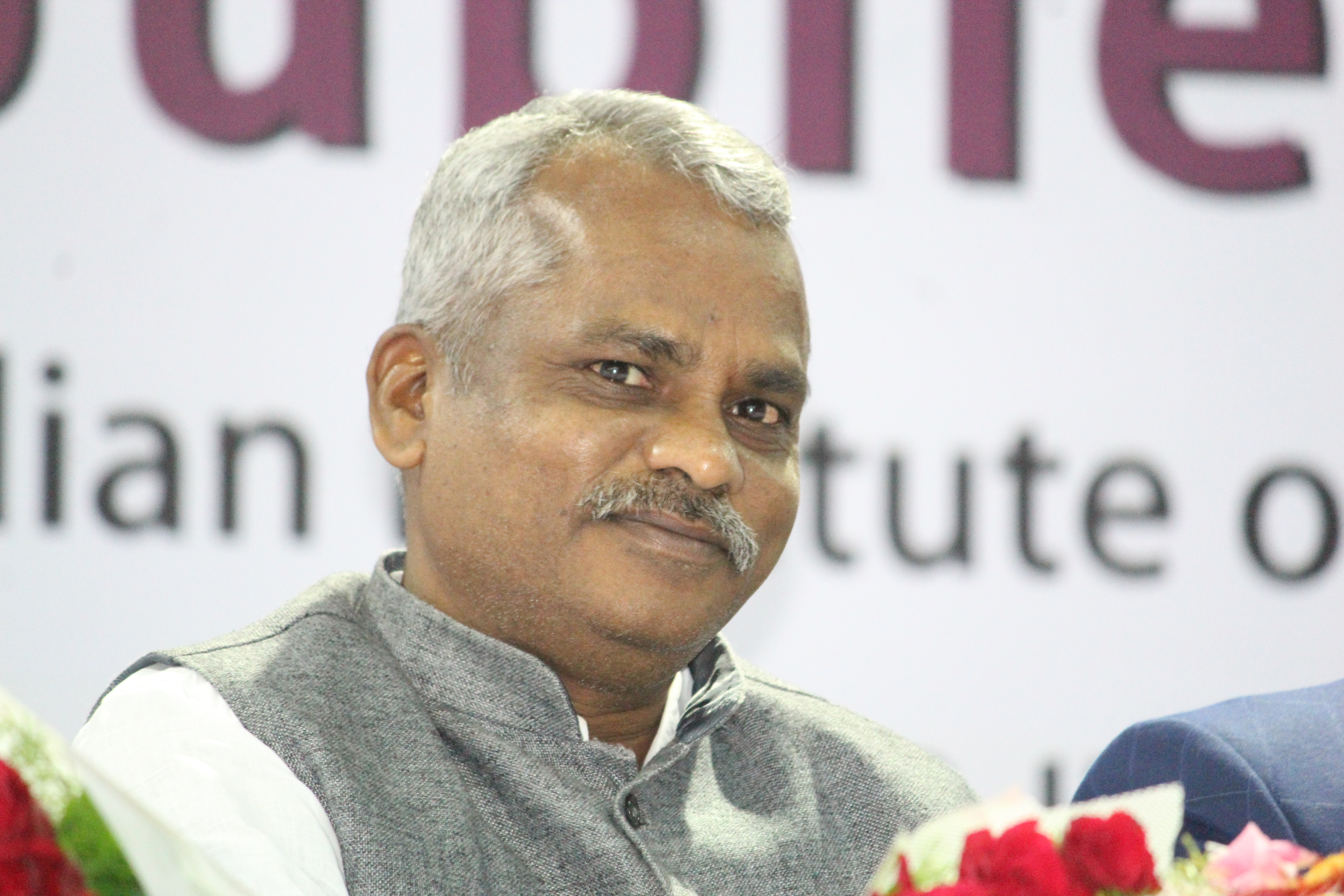 Taduri Srinivas